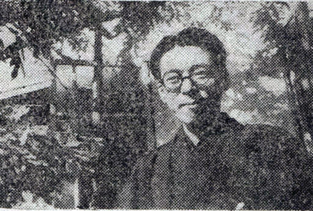 Itaro Yamagami